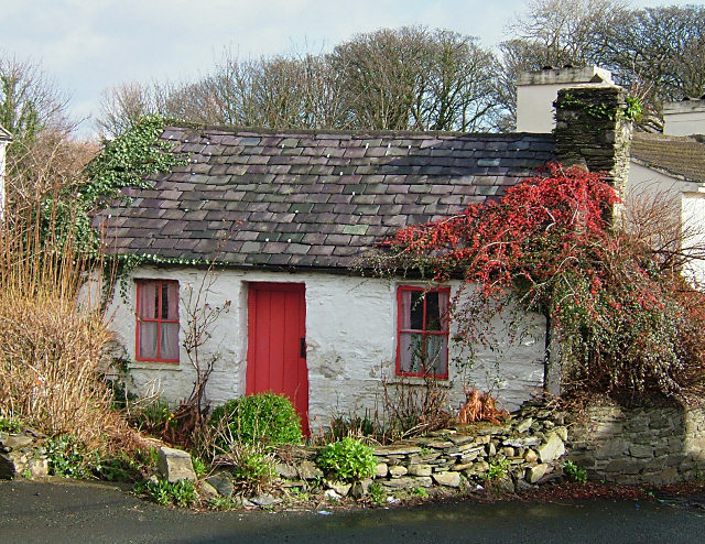 Old Onchan - Isle of Man. This old cottage gets progressively more overgrown through the summer, so it looks best in the winter months.